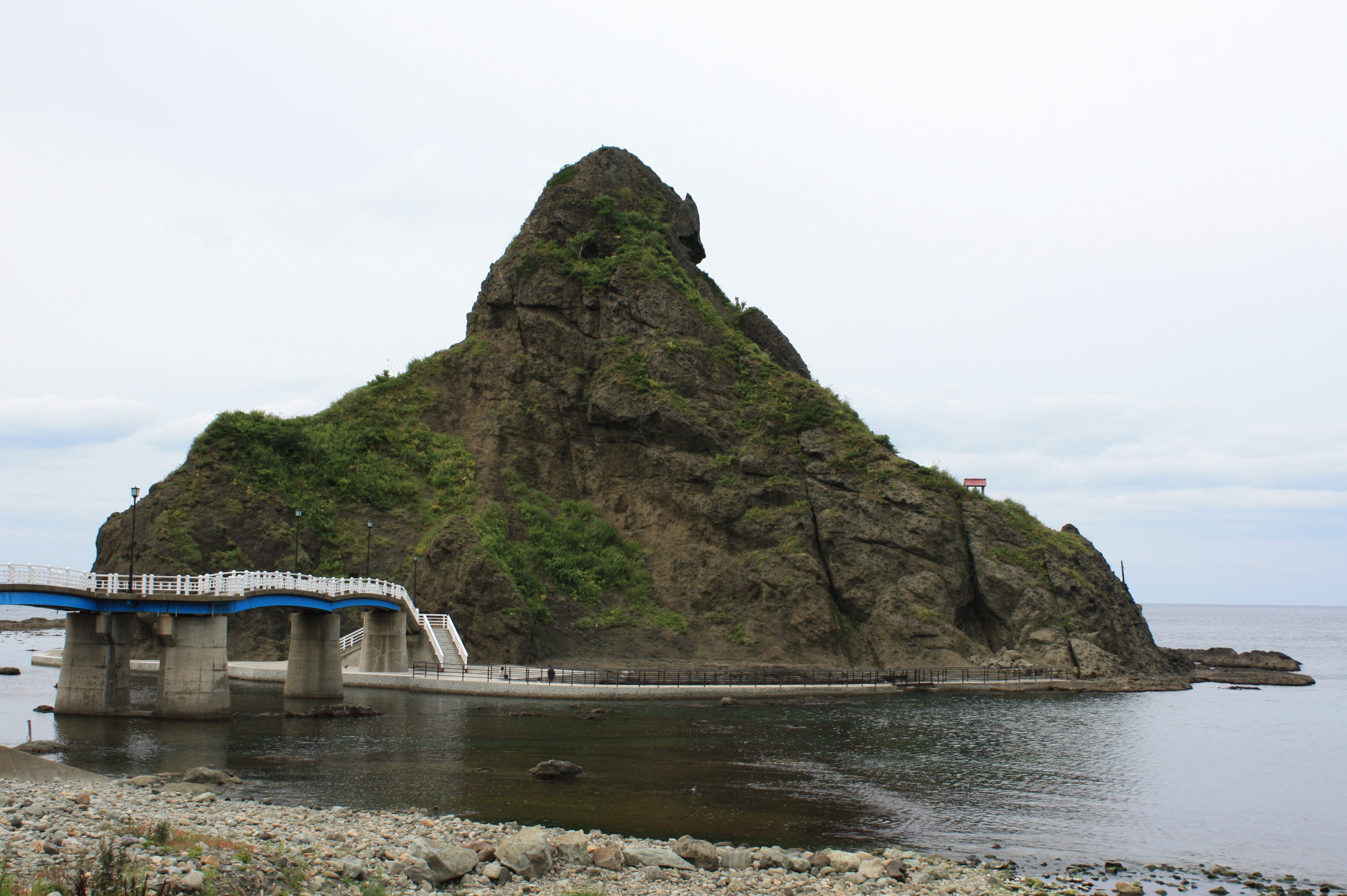 Benten Island in Tomari, Hokkaido, Japan.